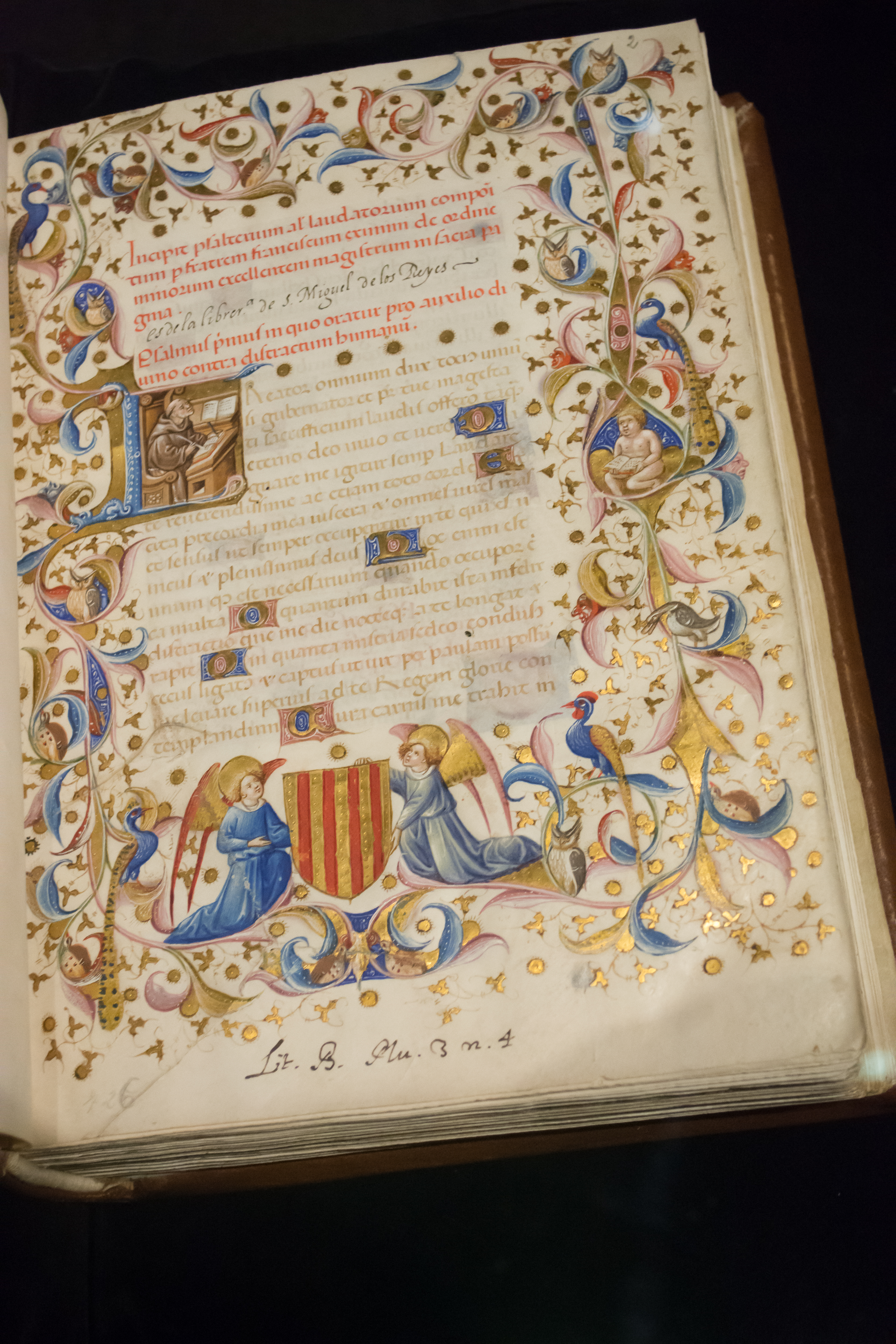 Written and decorated in Valencia between 1442 and 1443 for Alfonso V. The codex transcribes the ecclesiastical devotional of Francesc Eiximenis organized around three thematic cycles of the Franciscan tradition. Decoration: It has three different orles, in pages 2r, 64r and 127r. The first shows the influence of international Gothic, with plant and bird motifs, as well as the fantasy in the dressing of the initials. The second can be considered as a perfect work of design that recalls the art nouveau. In the third orle, appearfeatures of the new humanistic decoration of the book are introduced, with bianchi girari and the putti. 238 pages. 260 x 158 mm, binding 275 x 220 mm. Ancient humanistic writing on vellum. Collection Duke of Calabria. University of Valencia. Historical Library. BH Ms. 726.